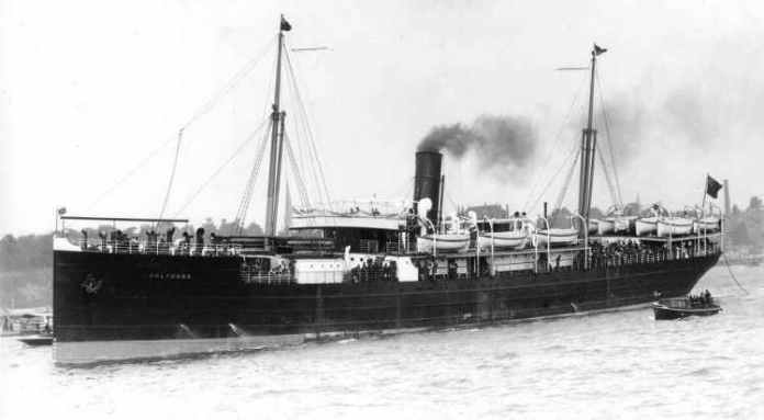 Photograph of the steamship Volturno prior to its sinking on 9 October 1913.